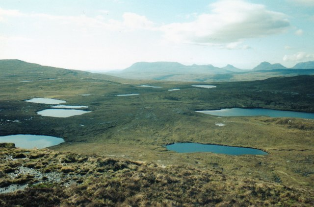 Leckmelm Vista A view of the leckmelm estate lochs, in far distance from the left, the Southeastern ridge of Coigach, Stac Pollaidh, Cul Beag and Cul Mhor To the far right, on a fine day in June.